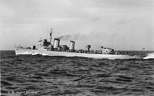 Postcard picture of the Swedish destroyer HMS Göteborg (J5).